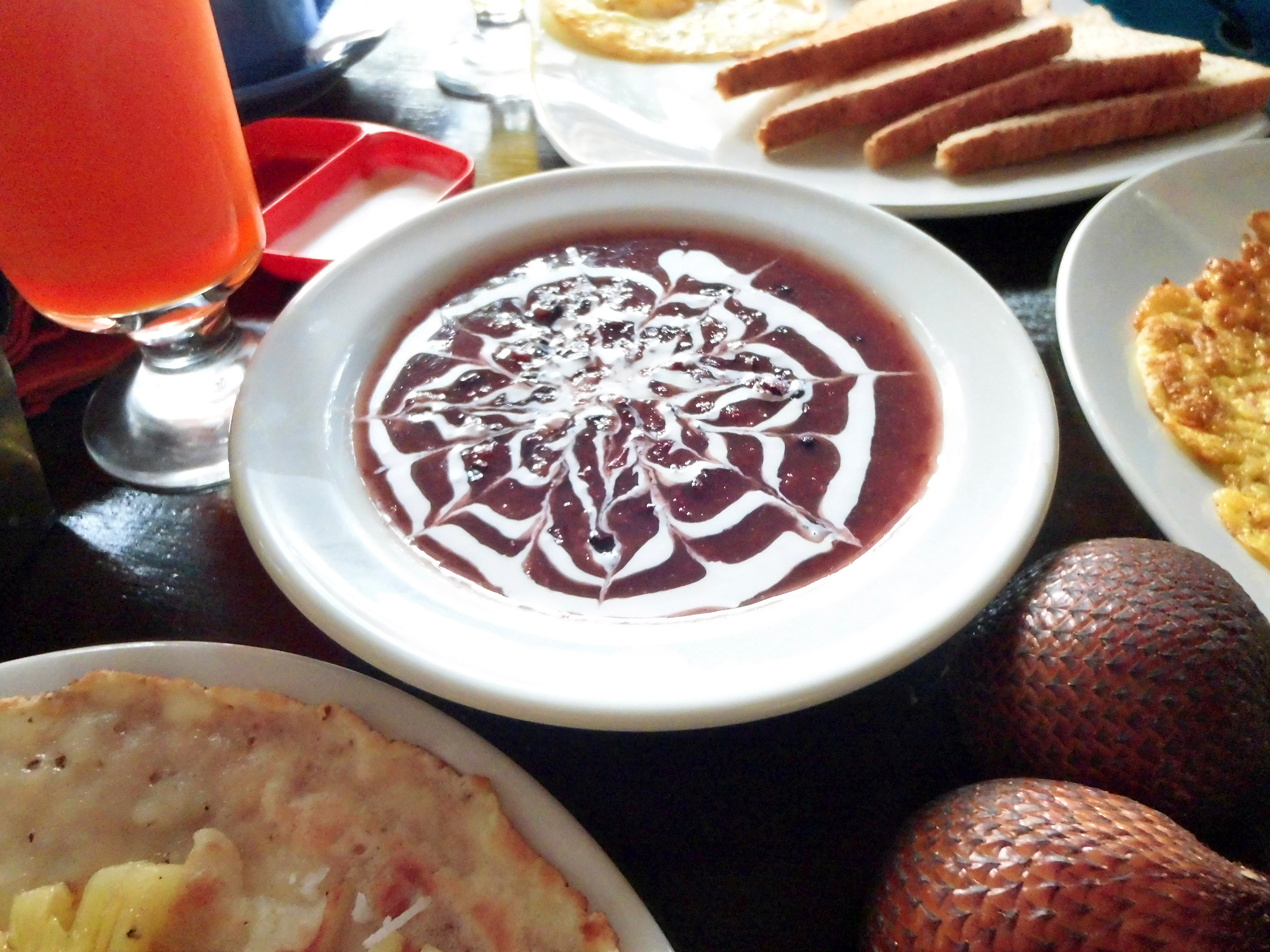 Bubur injin is Balinese version of bubur ketan hitam, or sweet black rice pudding served with coconut milk. Served as a breakfast in Gayatri Bungalows, Ubud, Bali, Indonesia.